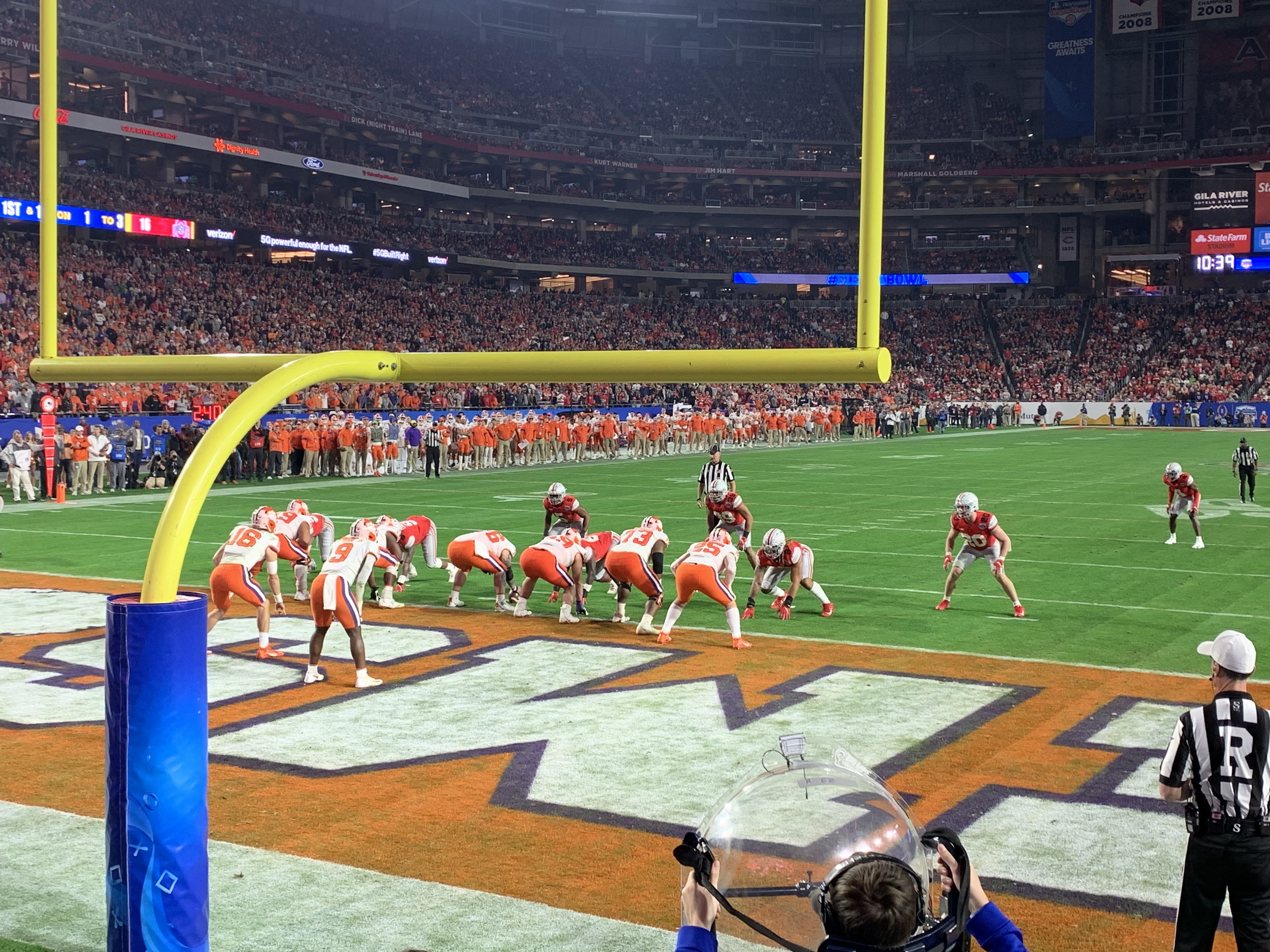 Clemson Offense preparing a snap in the 2nd half of the December 2019 Fiesta Bowl. Photo taken from the south end of the stadium.